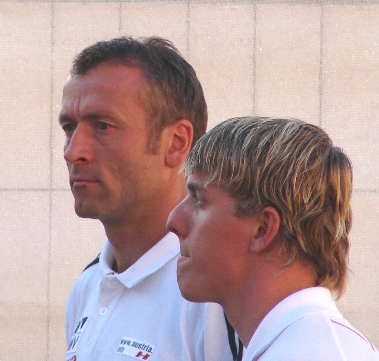 Austrian sportsman Mikhail Botwinov (left) and Harald Wurm. "Day of Sports" Festival 2006, Heldenplatz, Vienna, Austria